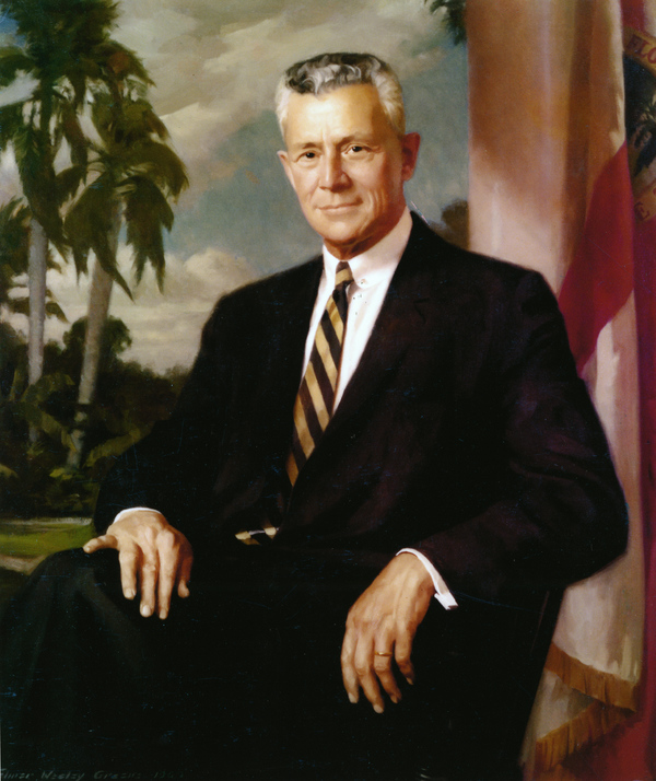 Painted portrait of Florida's 33rd Governor LeRoy Collins.